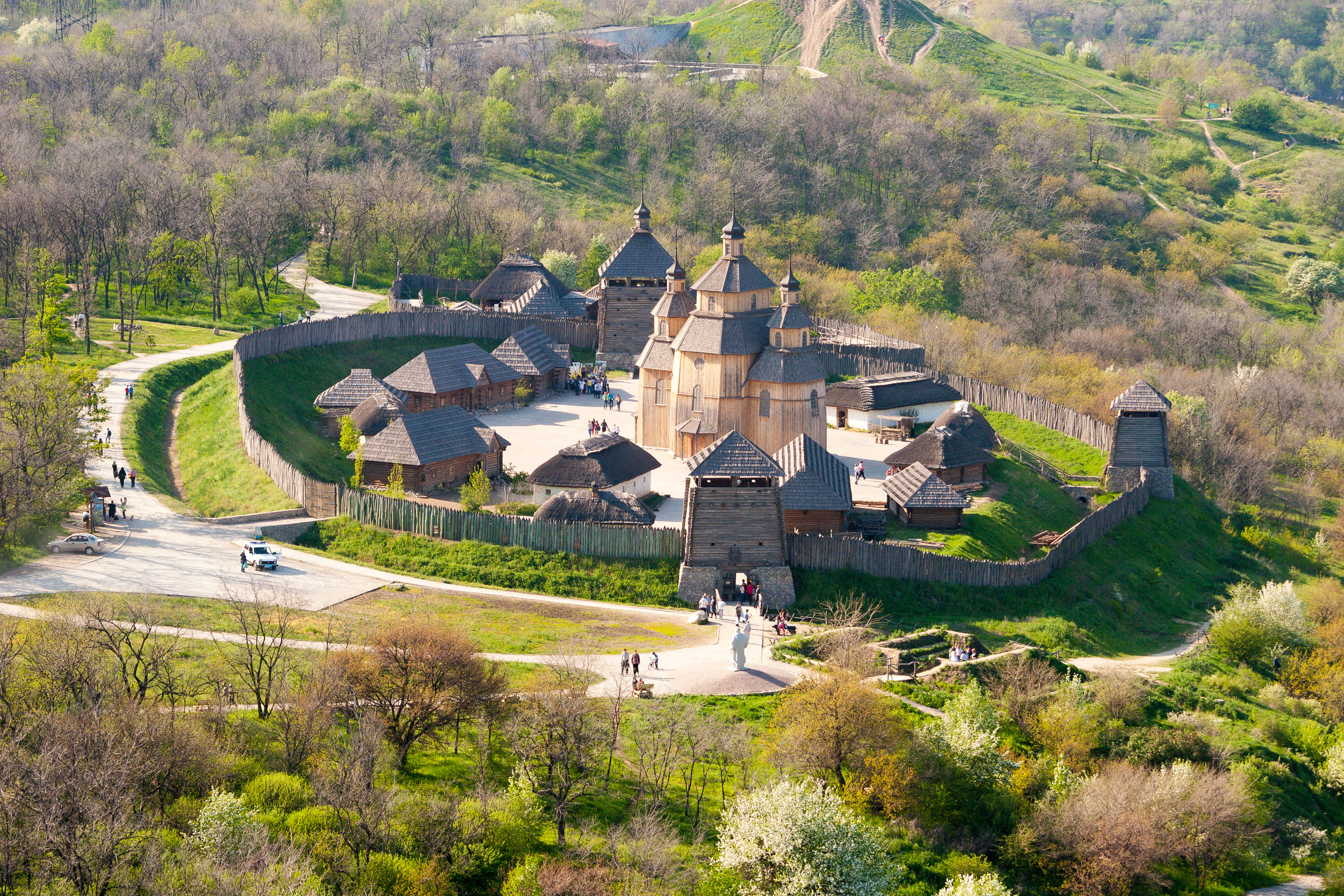 Zaporizka Sich historical-cultural complex